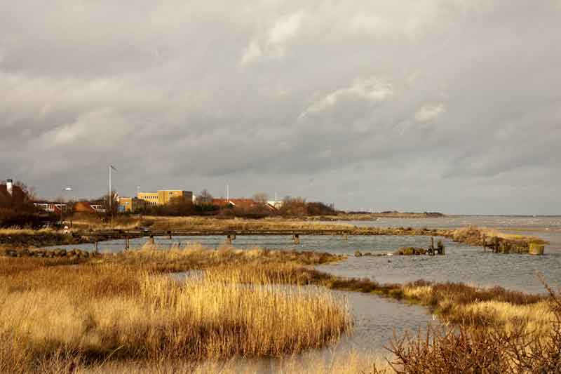 Skansehavnen, small port for dinghys in the northern part of Frederikshavn, Denmark